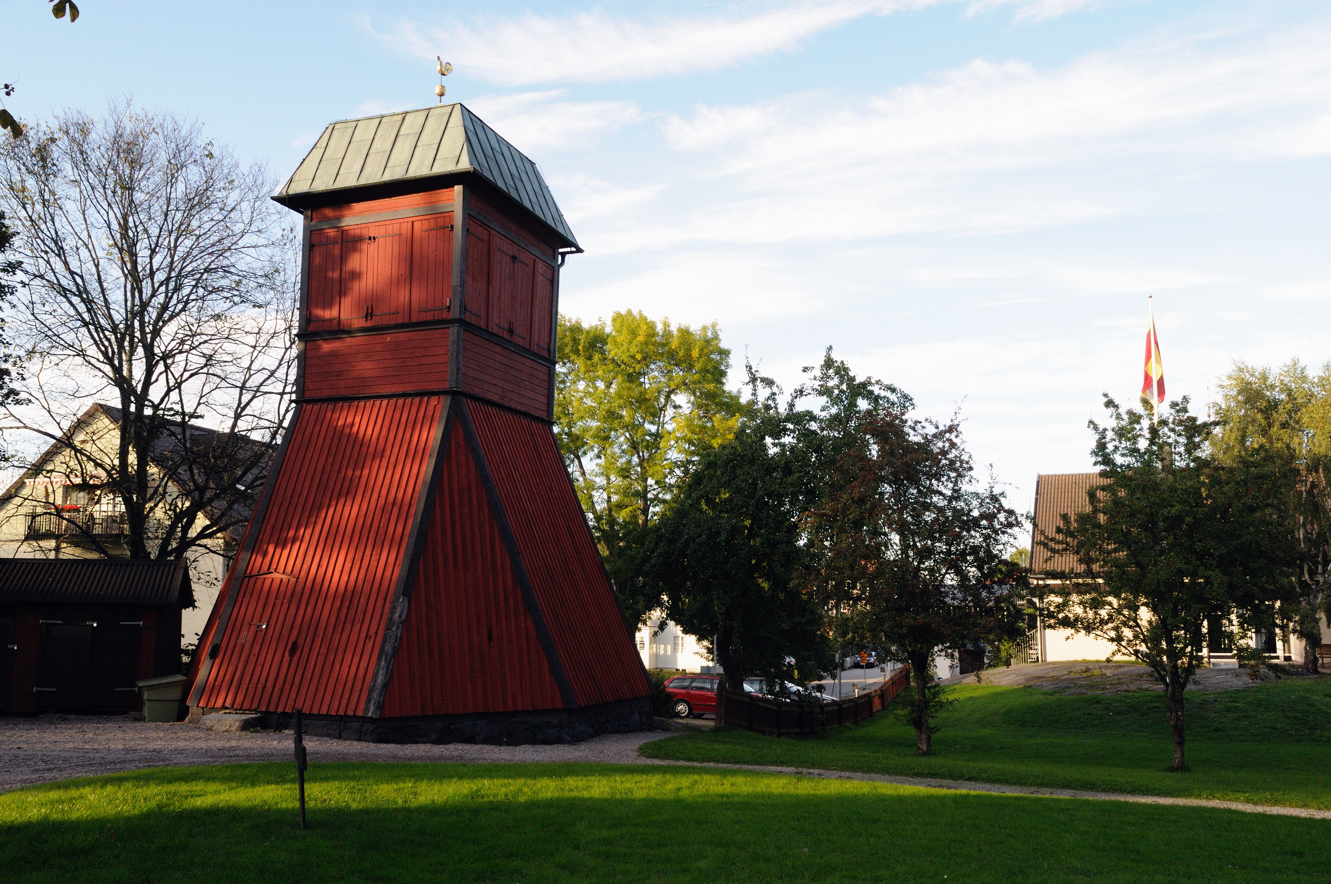 Church of Vaxholm, ringel-ding-thingie